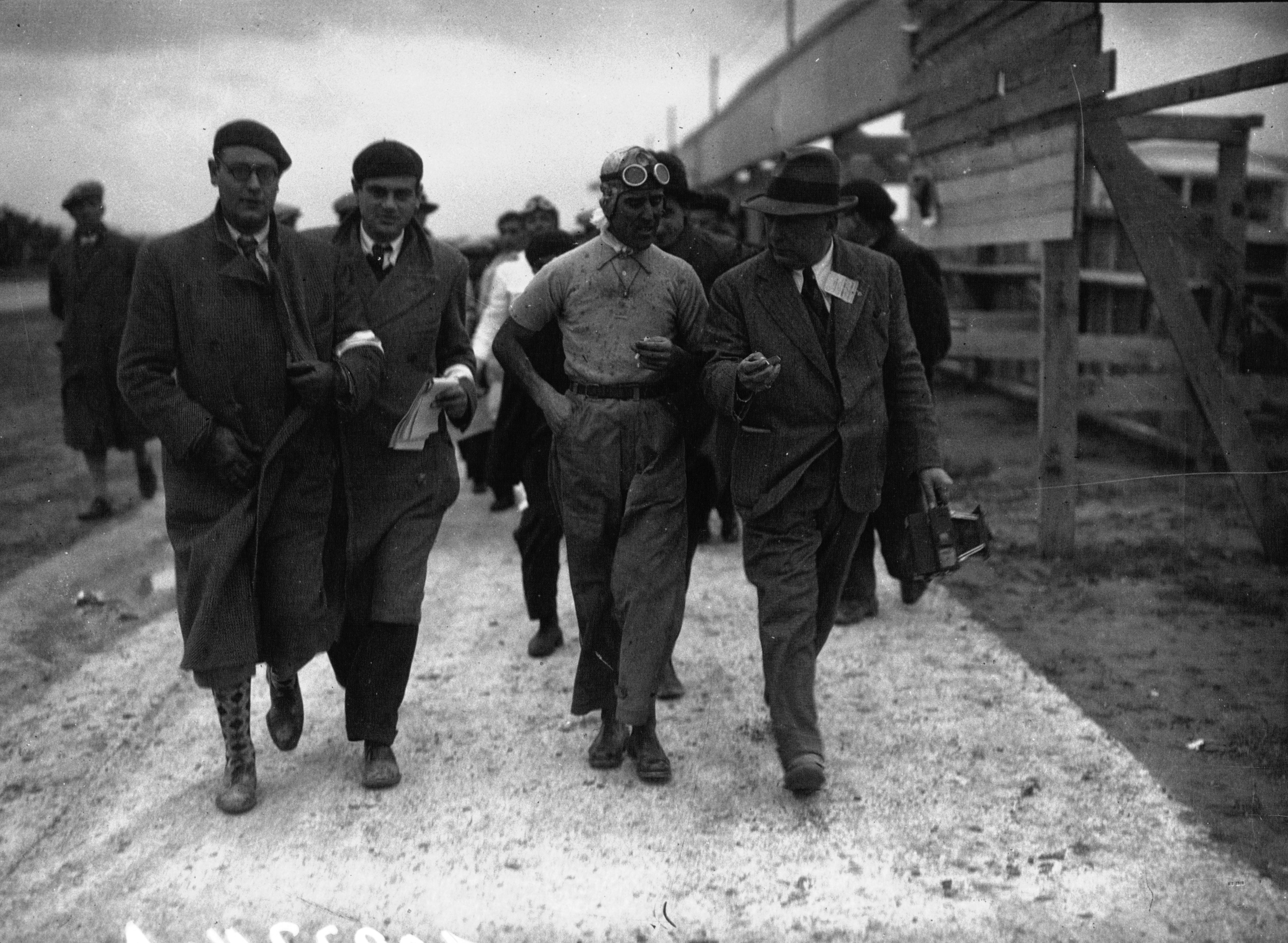 Tazio Nuvolari at the 1933 Tunis Grand Prix